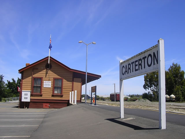 Carterton Railway Station Photographed by Palmeriain